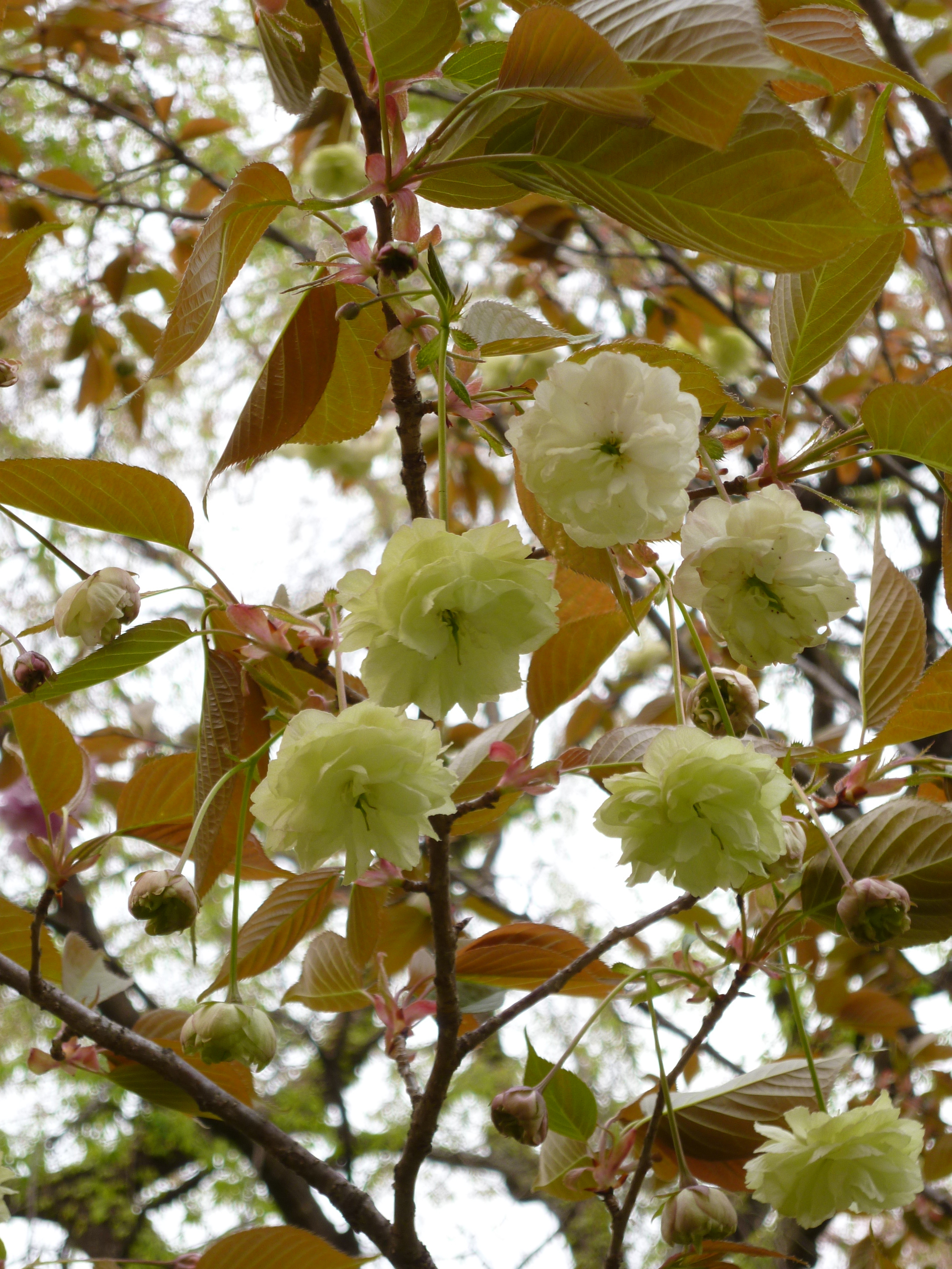 Flower of Prunus lannesiana 'Sumaura-fugenzo' This image was taken at Hirano-jinja, Kita, Kyoto, Kyoto, Japan.